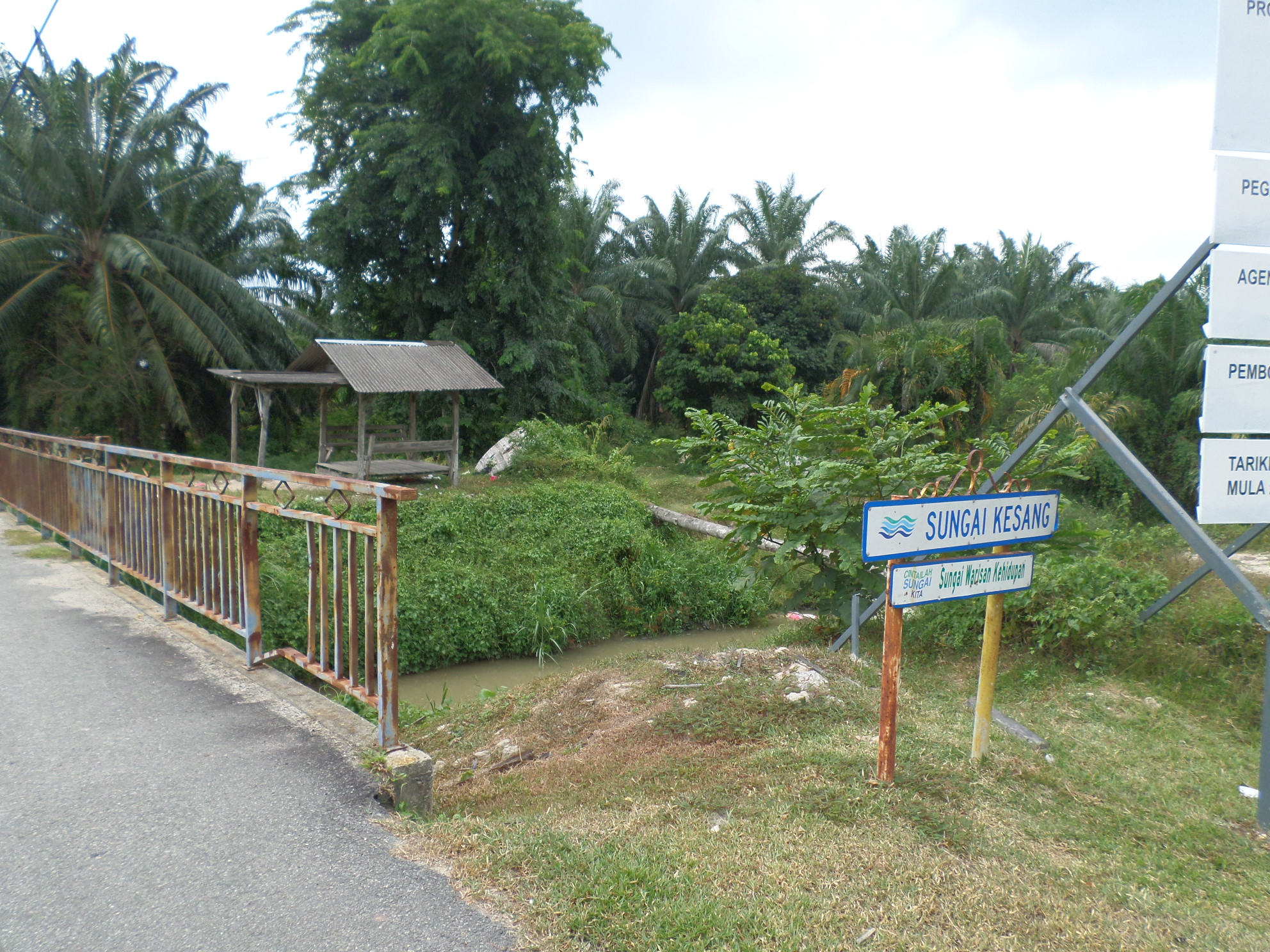 Kesang River, Jasin, Melaka, MalaysiaBahasa Melayu: Sungai Kesang, Jasin, Melaka, Malaysia